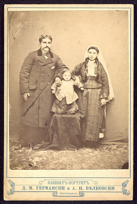 Atanas Kelpetkov and Family in Ustovo 22 January 1884